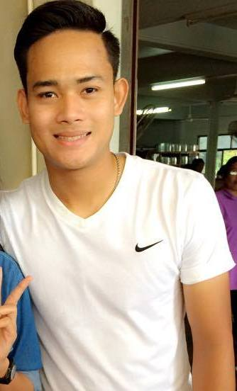 Peerapat Notchaiya in 28 December 2014.